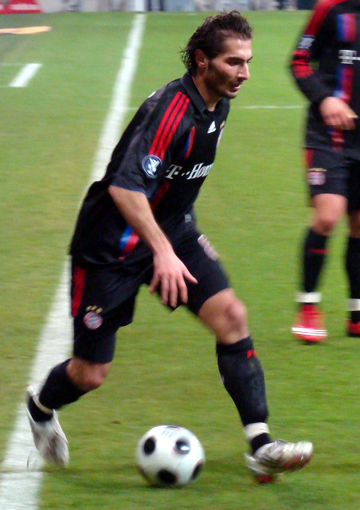 Hamit Altintop with the ball during the FC Bayern's 5-1 defeat of Aberdeen in the UEFA Cup.